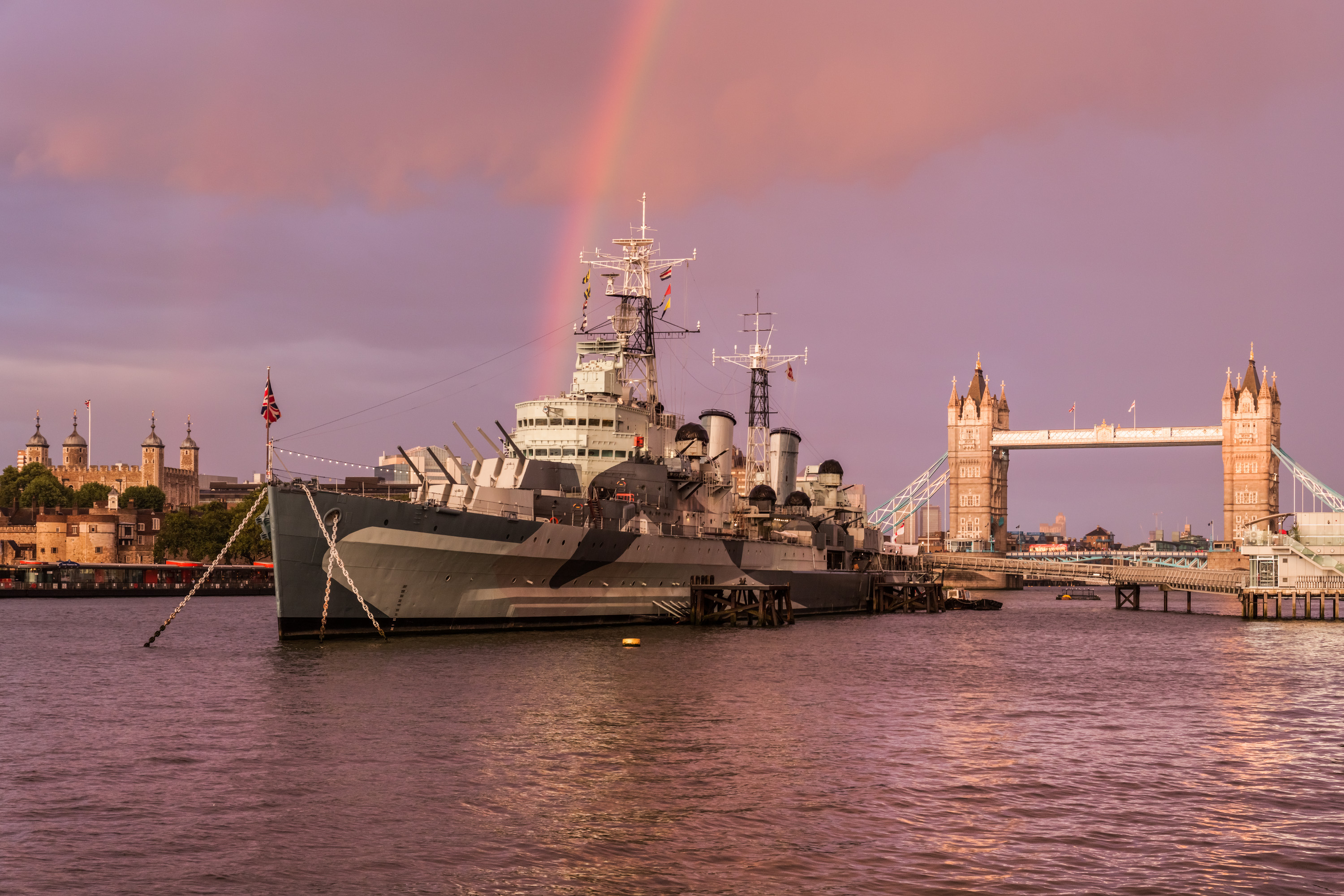 HMS Belfast